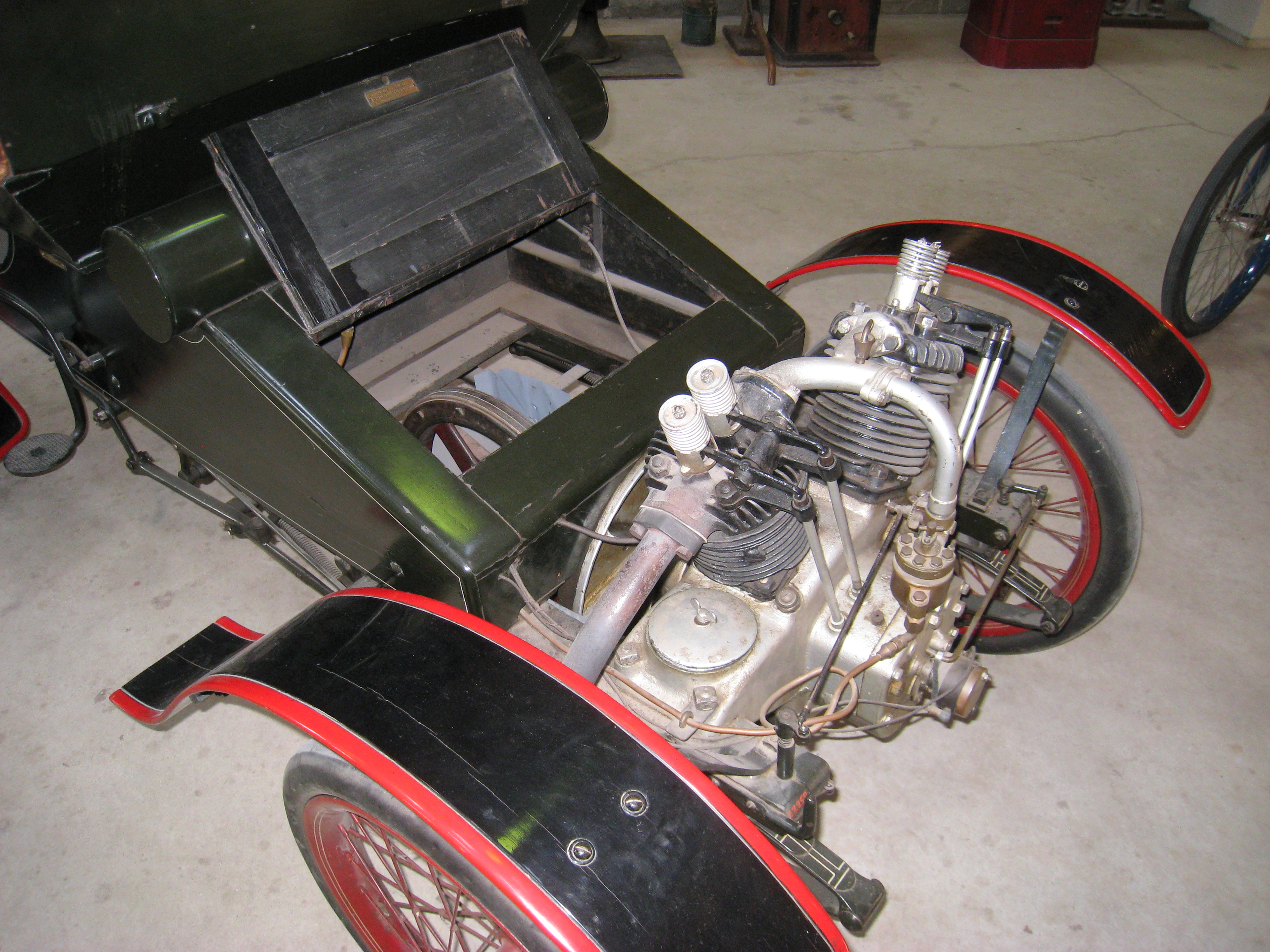 Orient Runabout, 1907, Waltham Manufacturing Company, Waltham, Massachusetts, USA. Optional 2 cylinder engine and friction drive.